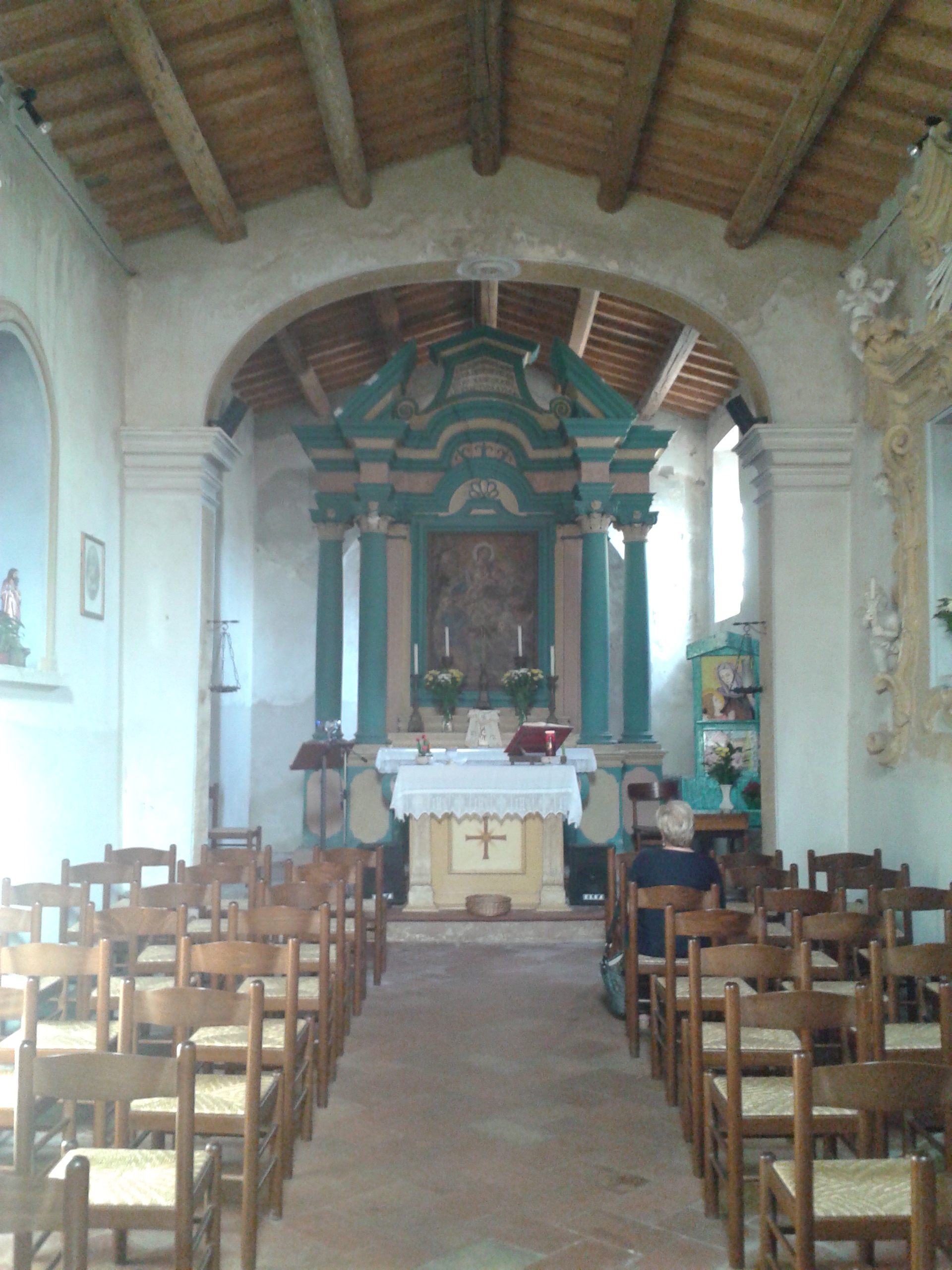 Interno della chiesa di sant'anna, deruta